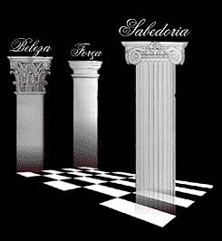 Colunas Maçónicas - Força, Sabedoria, Beleza: Trabalho digital de Carlos Botelho Masonic Columns - Strenght, Wisdom, Beauty: Digital work by Carlos Botelho